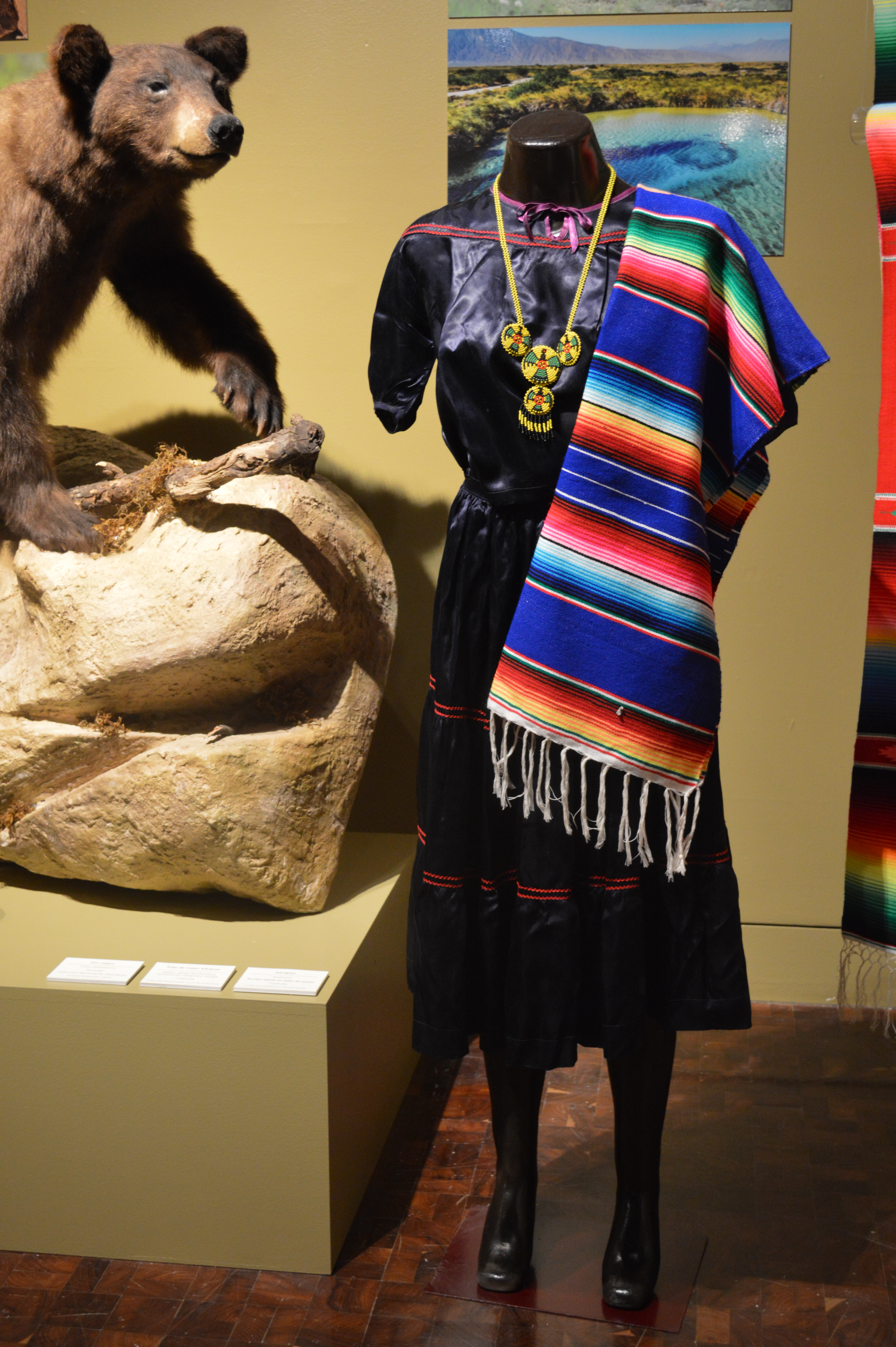 Womans Kickapoo Dress at the El Norte, su materia, su artesania at the Museo de Arte Popular in Mexico City